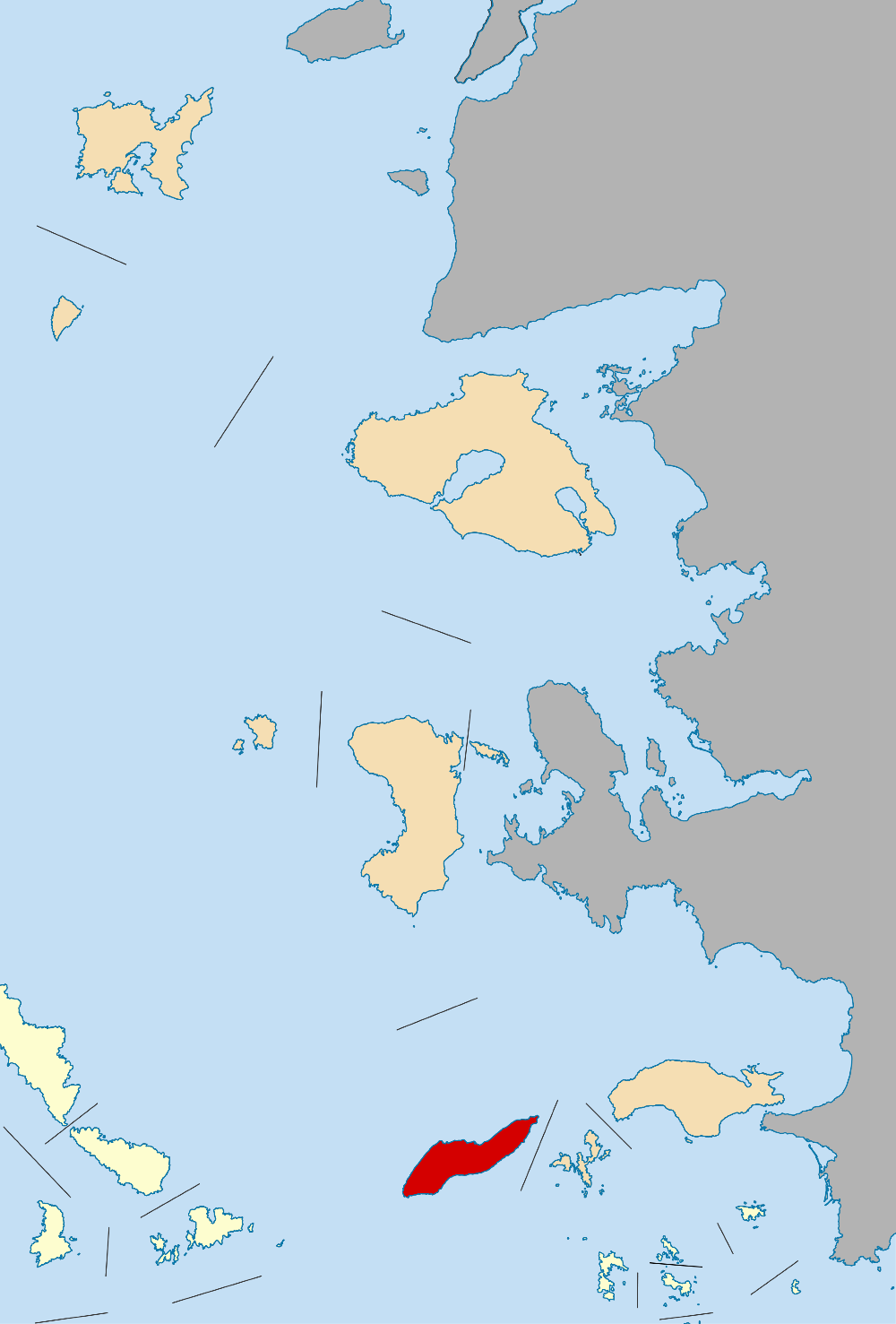 Locator map for Ikaria municipality in Greek region North Aegean (2011)